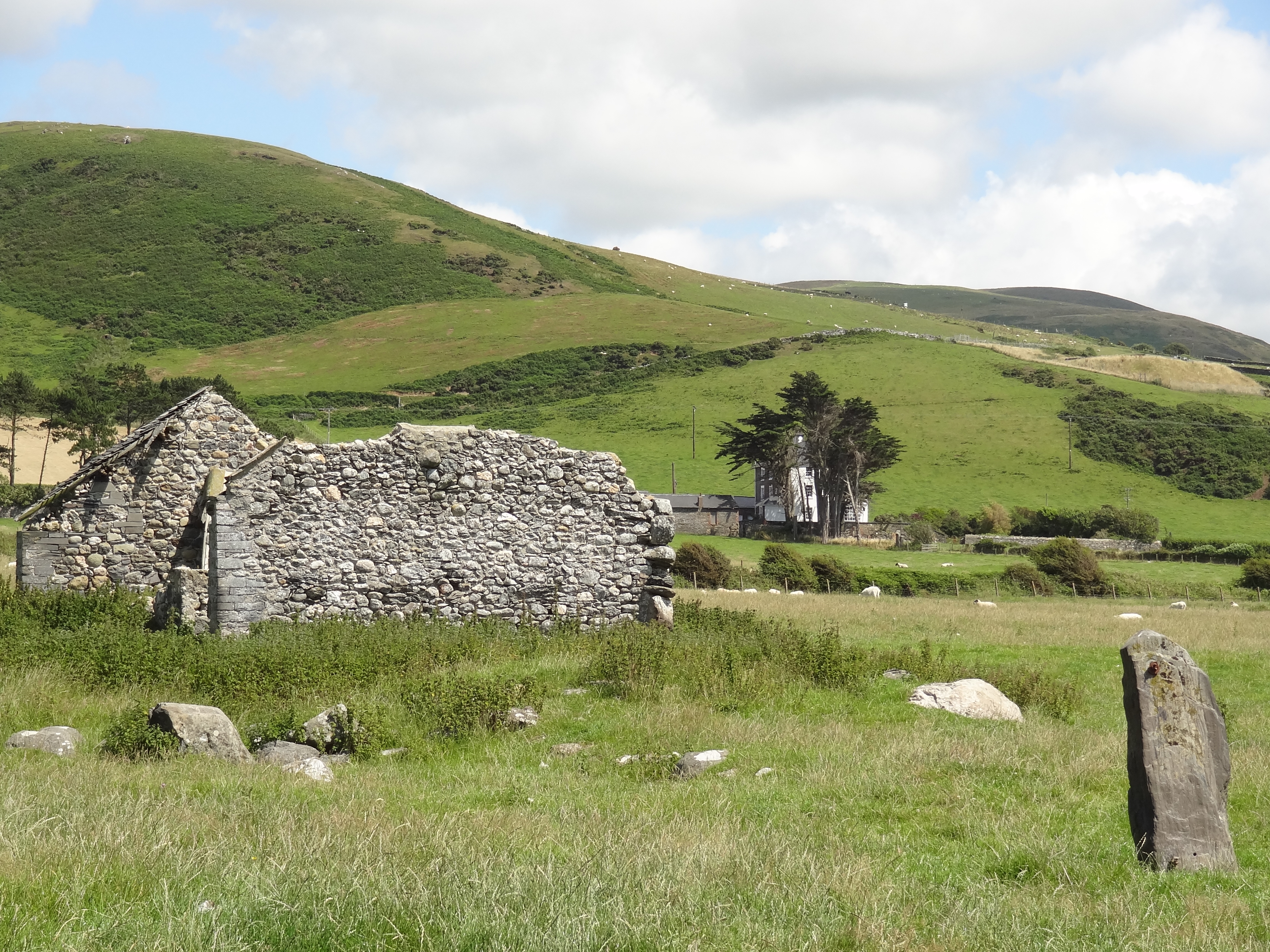 Ruins of Esguan Isaf farmhouse near Tywyn